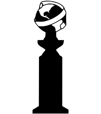 Stylized silhouette of the Golden Globe award, for use as an icon.